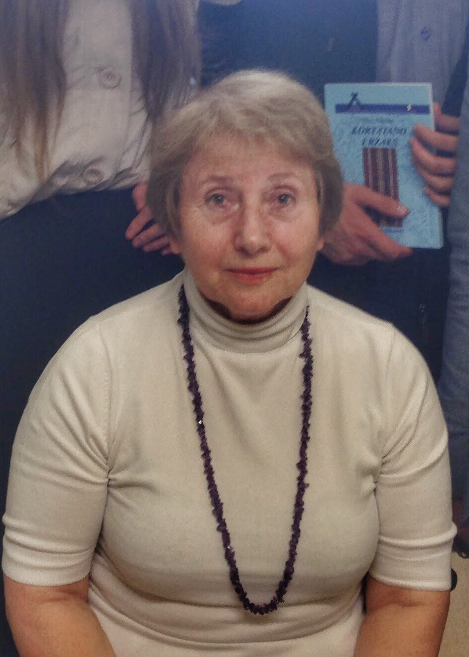 Niina Aasmäe — teacher of Erzya language, University of Tartu, doctor of science.